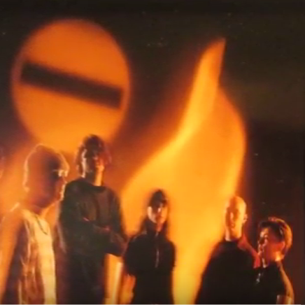 Rymes With Orage band photo, from the "Trapped in the Machine" album 1994.